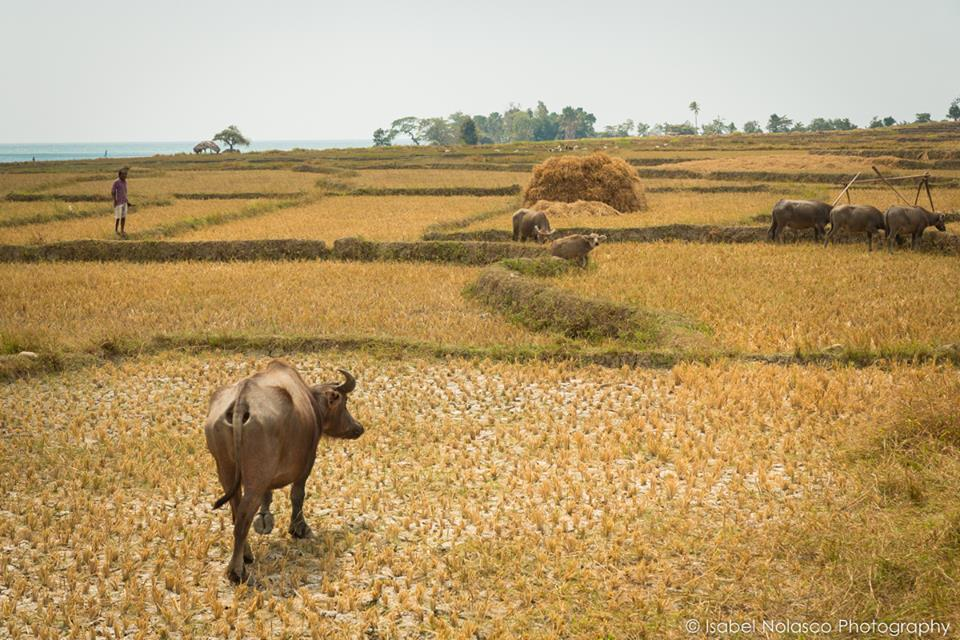 Rice fields and buffalos (Carau, in Tetum) in Timor-Leste.